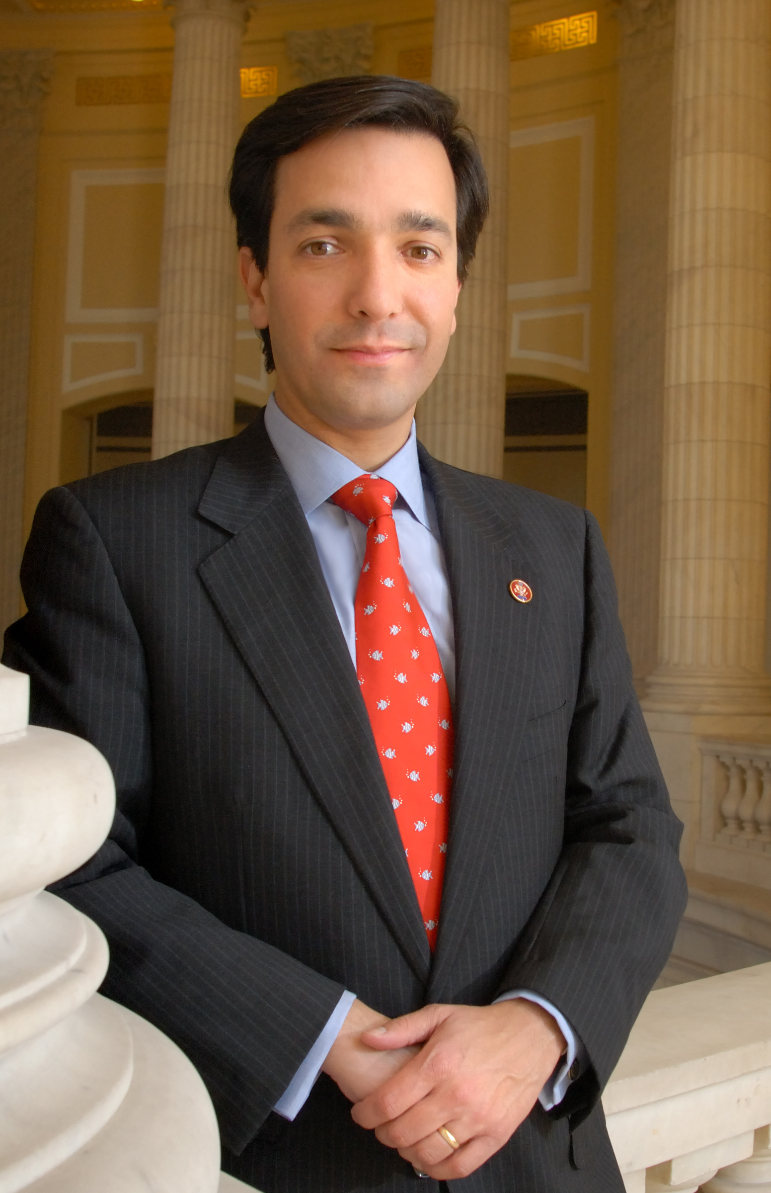 Official U.S. congressional portrait of Luis Fortuño (R- Puerto Rico)